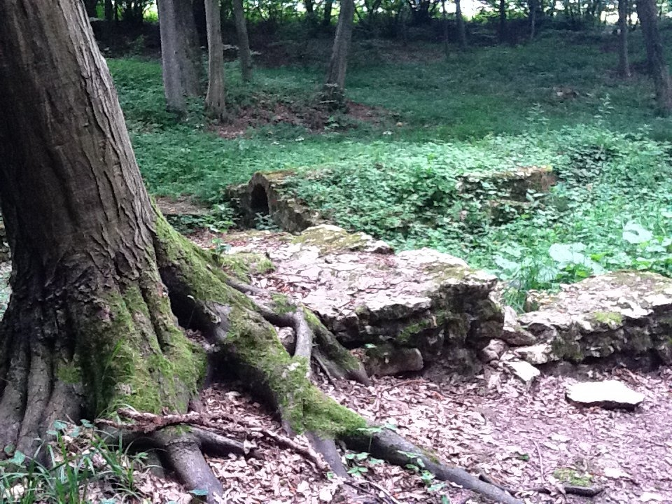 Ruins of an 18th century glassblower oven in the forests of the Southern Hungarian Mecsek mountains. Pusztabánya, near Hosszúhetény.